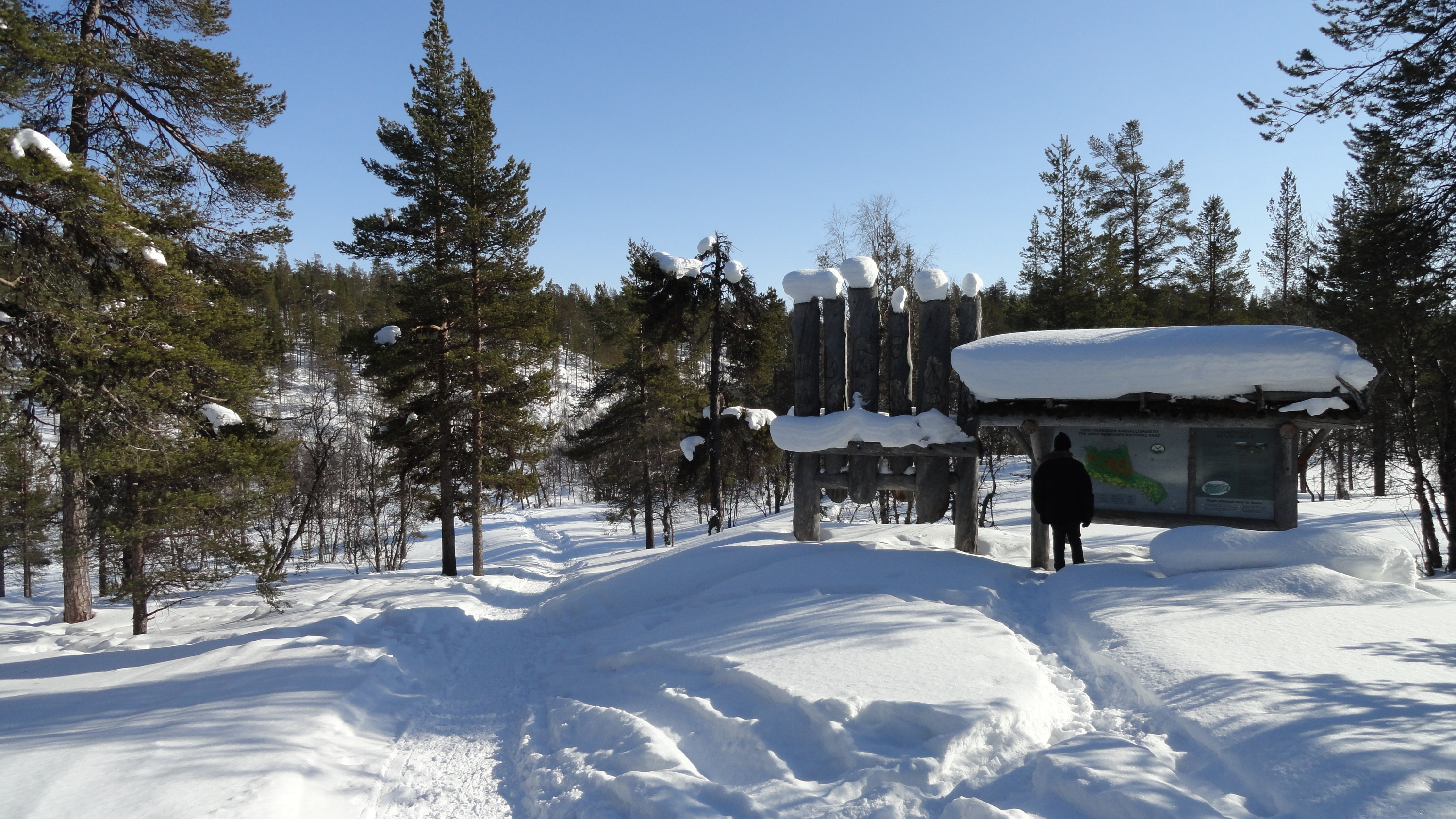 Urho Kekkonen National Park entrance in Saariselkä, Finland.